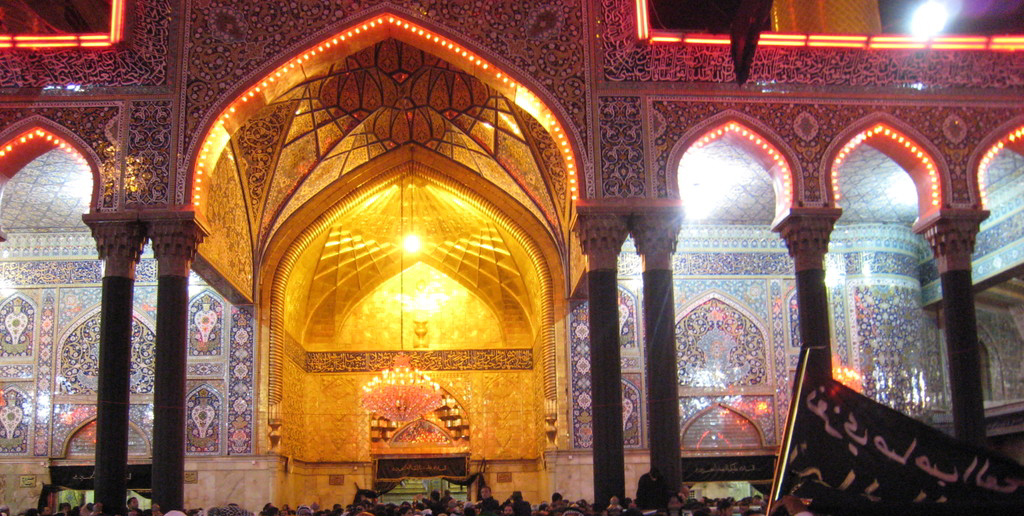 Imam Husayn Mosque - Shrine of: Imam Husayn, Ali Akbar, Ali Asghar, Habib ibn Madhahir, all the martyrs of Karbala, and Ibrahim ibn Imam Musa al-Kadhim. (Karbala, Iraq)